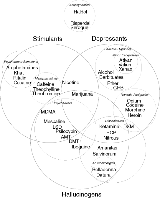 Drug chart diagram (in progress)